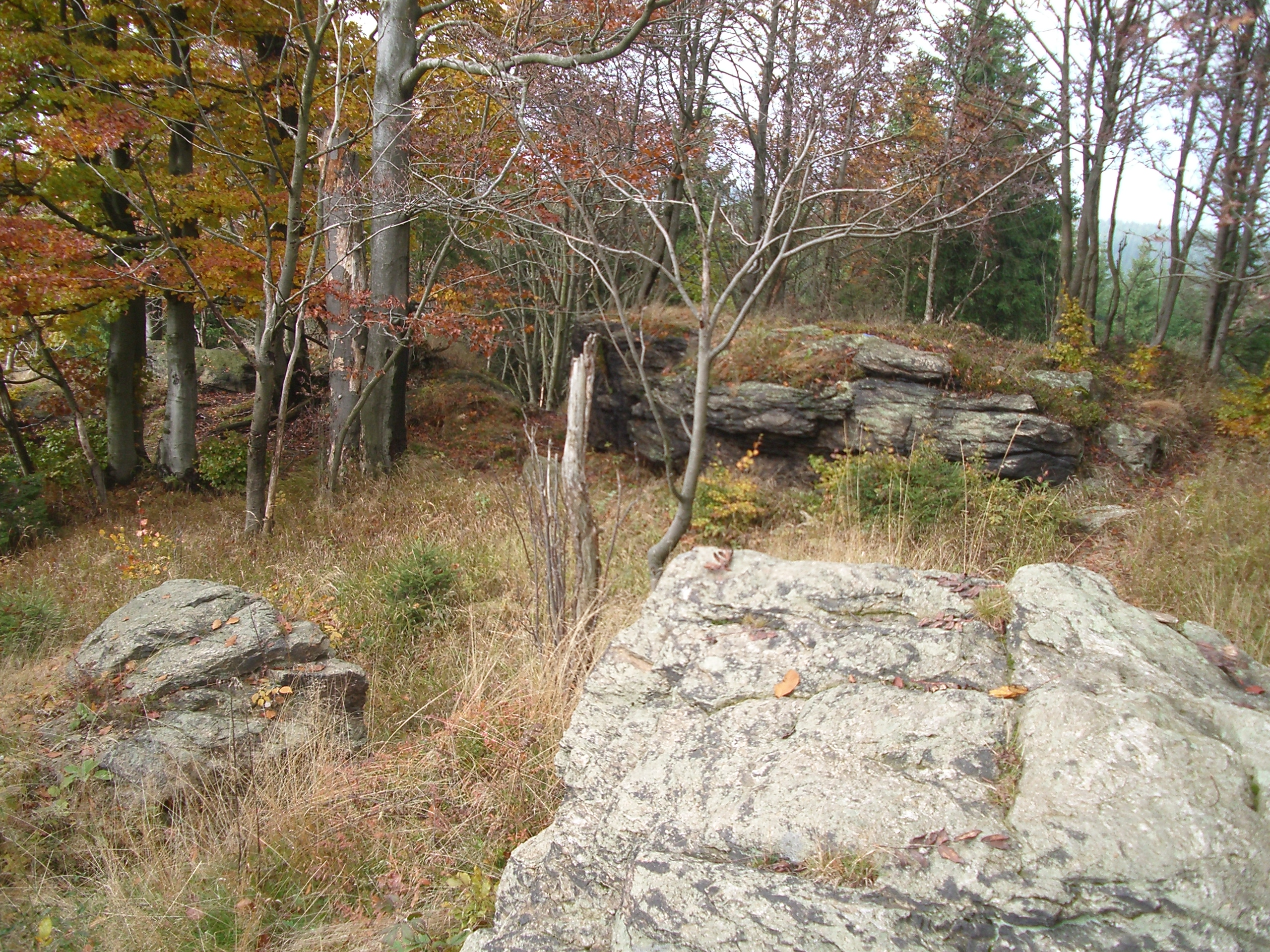 Steinhübel (Erzgebirge)